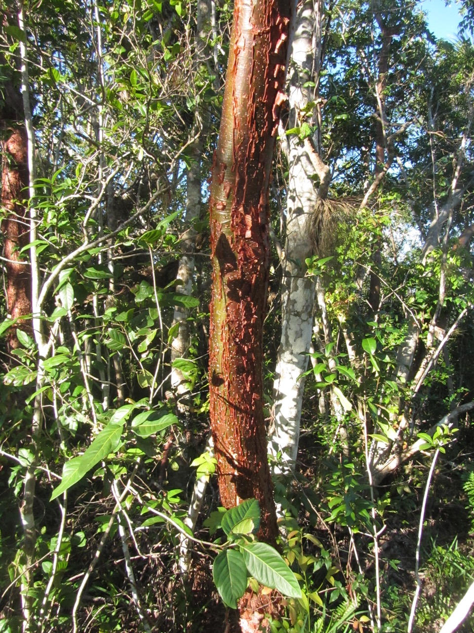 Collier-Seminole State Park